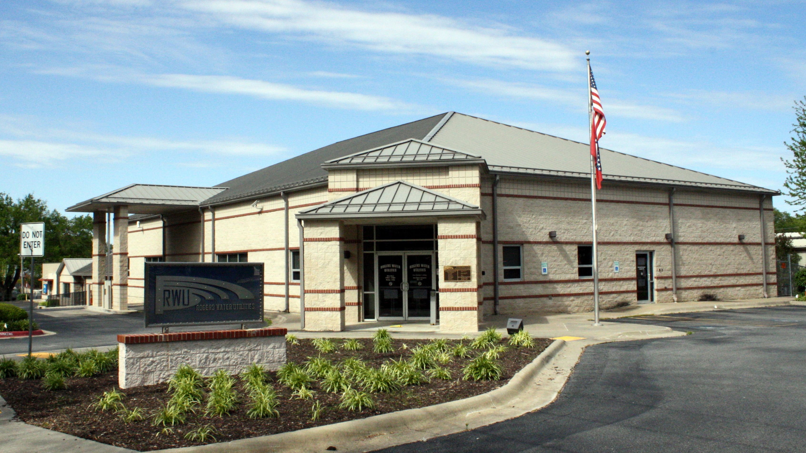 Administrative offices of Rogers Water Utilities in Rogers, AR